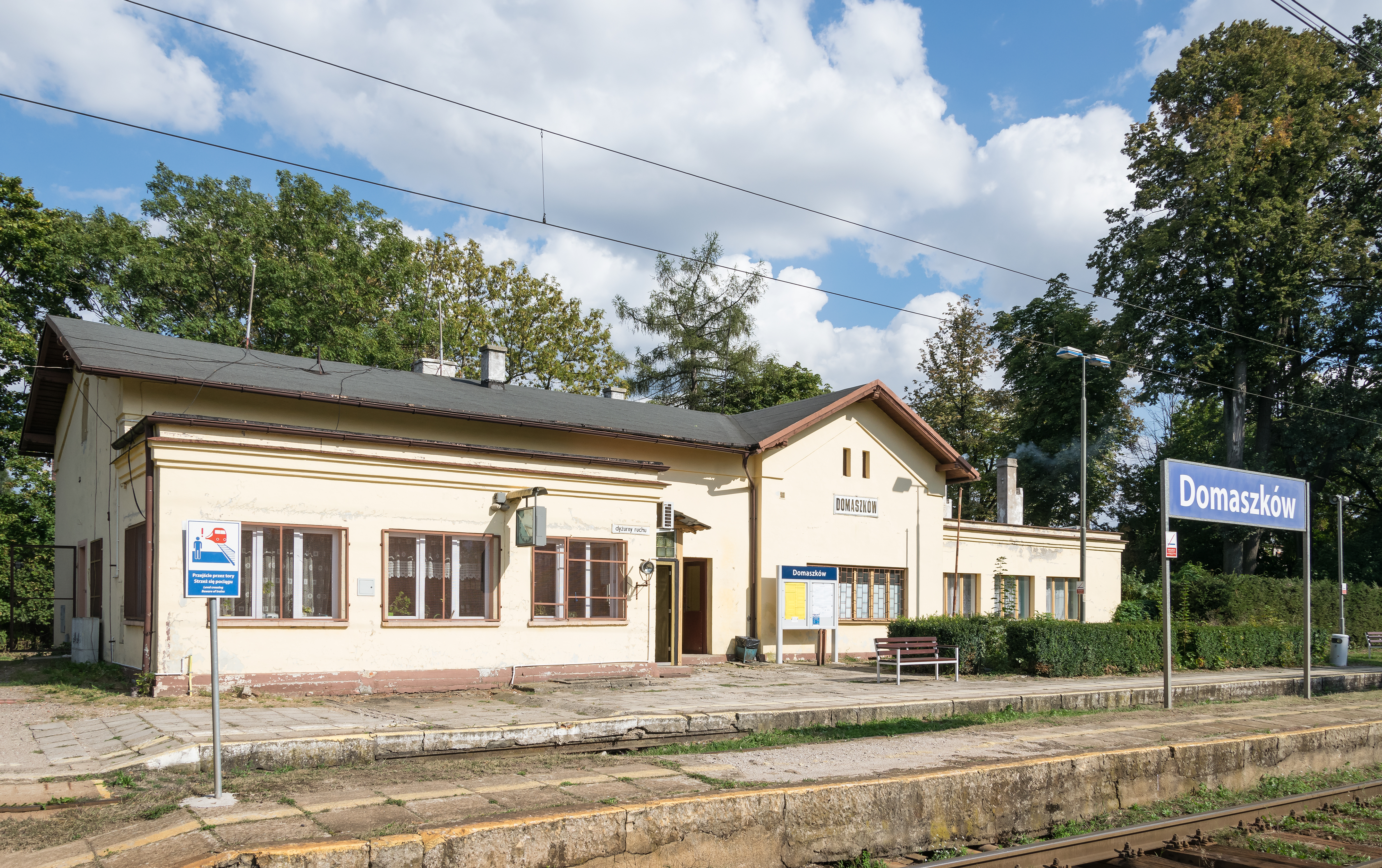 Train station in Domaszków